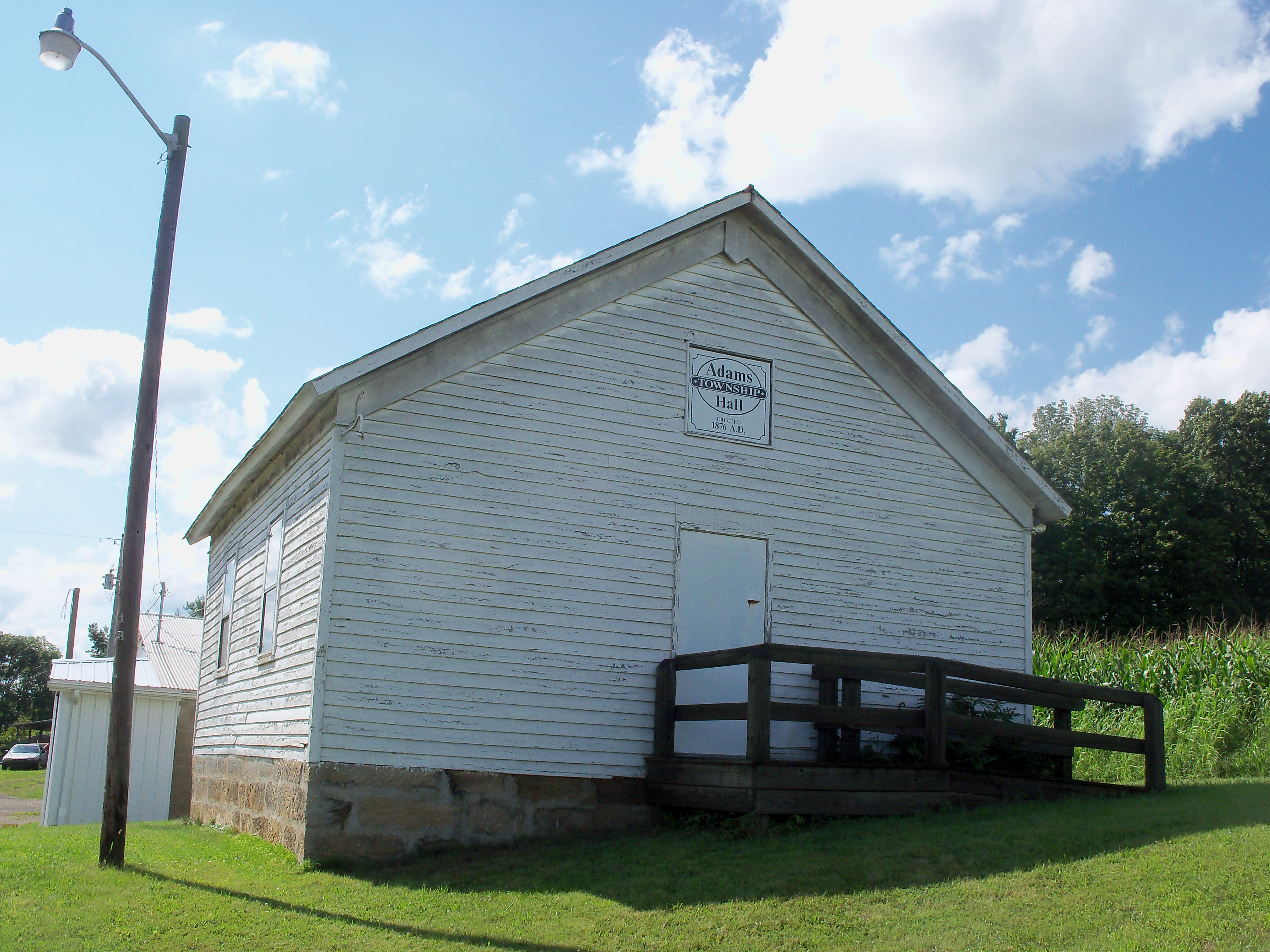 meeting hall in township noted in title